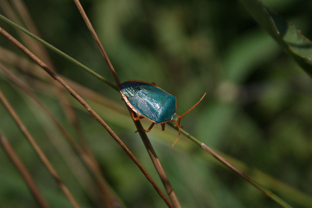 Edessa rufomarginata, mount Roraima, Venezuela